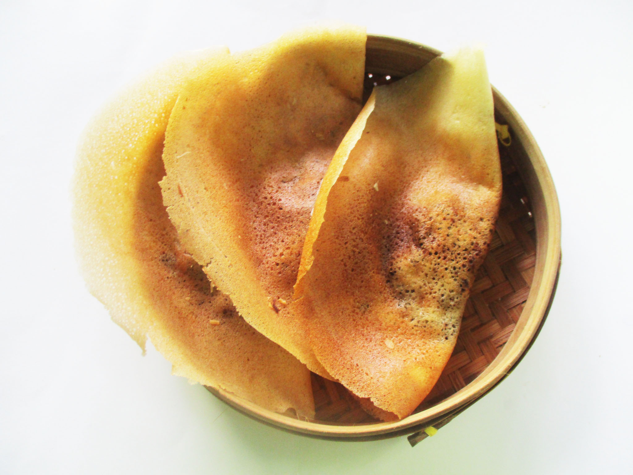 Leker is one of the typical foods in the provinces of Central Java and East Java. This dough is made from eggs, flour, milk, sugar and water. This dough is then poured on a mini pan that has been hot (usually heated over coals of charcoal) to make the skin a circular loop